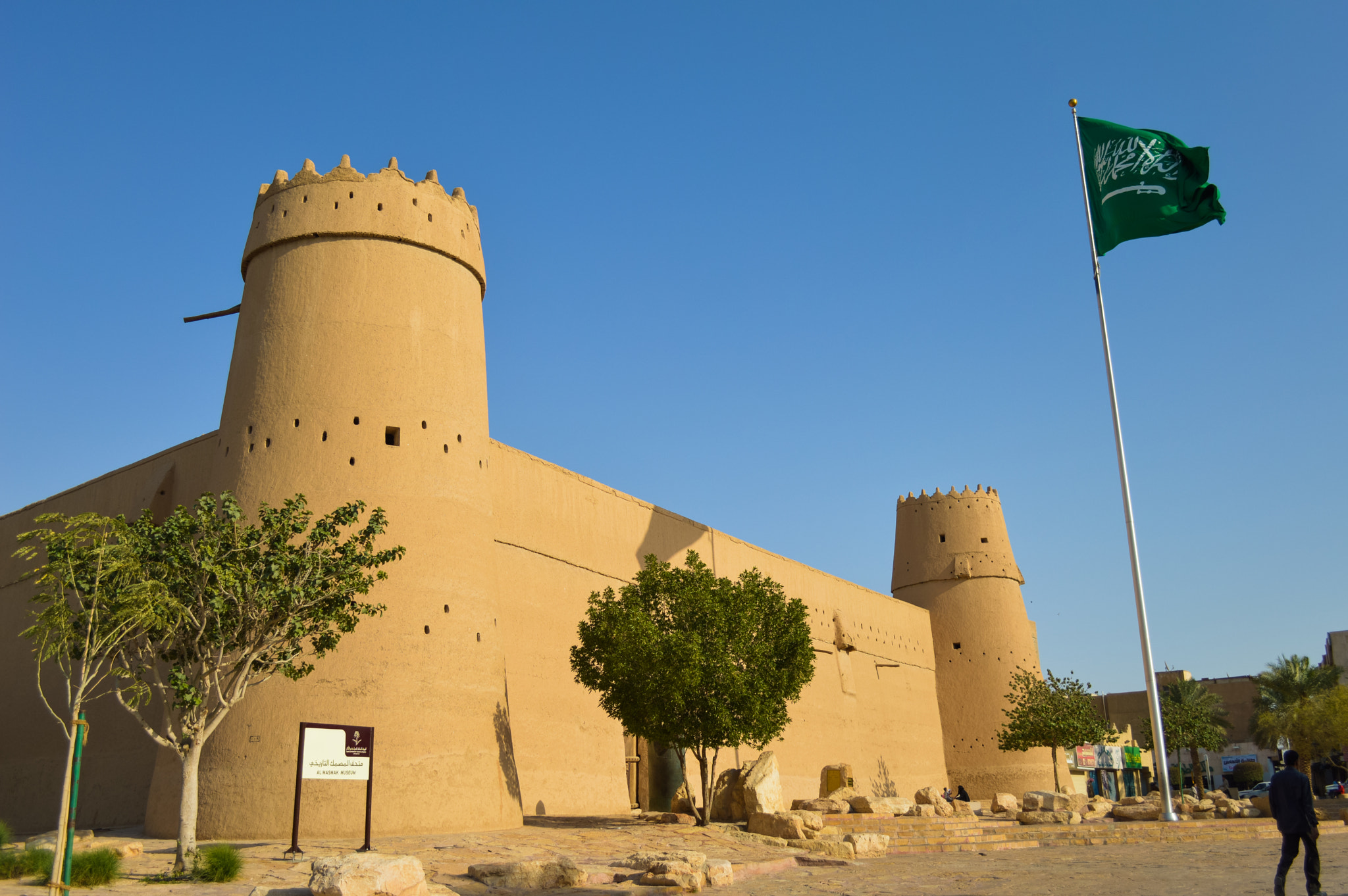 500px provided description: Masmak Fort [#sky ,#landscape ,#city ,#travel ,#tower ,#tourism ,#architecture ,#tree ,#building ,#wall ,#castle ,#sunny ,#ancient ,#panoramic ,#military ,#outdoors ,#landmark ,#daylight ,#flag ,#no person]